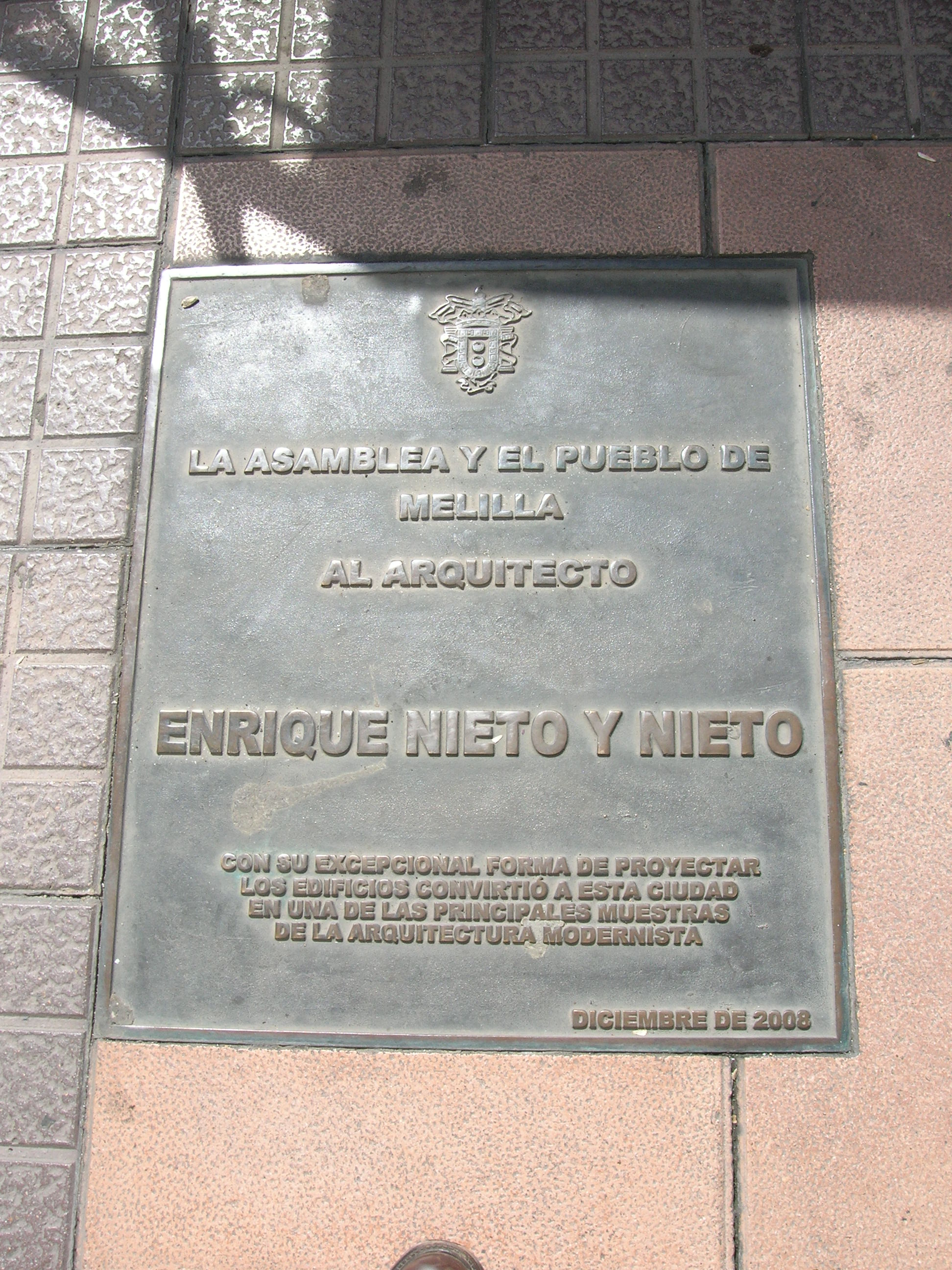 Plaque accompanying the statue of the architect Enrique Nieto in Melilla